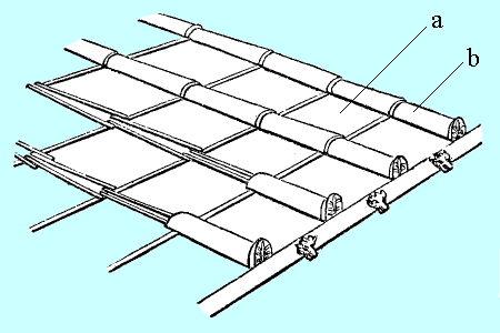 a) tegula and b) imbrex roofing tiles used in Ancient Greece and Rome.